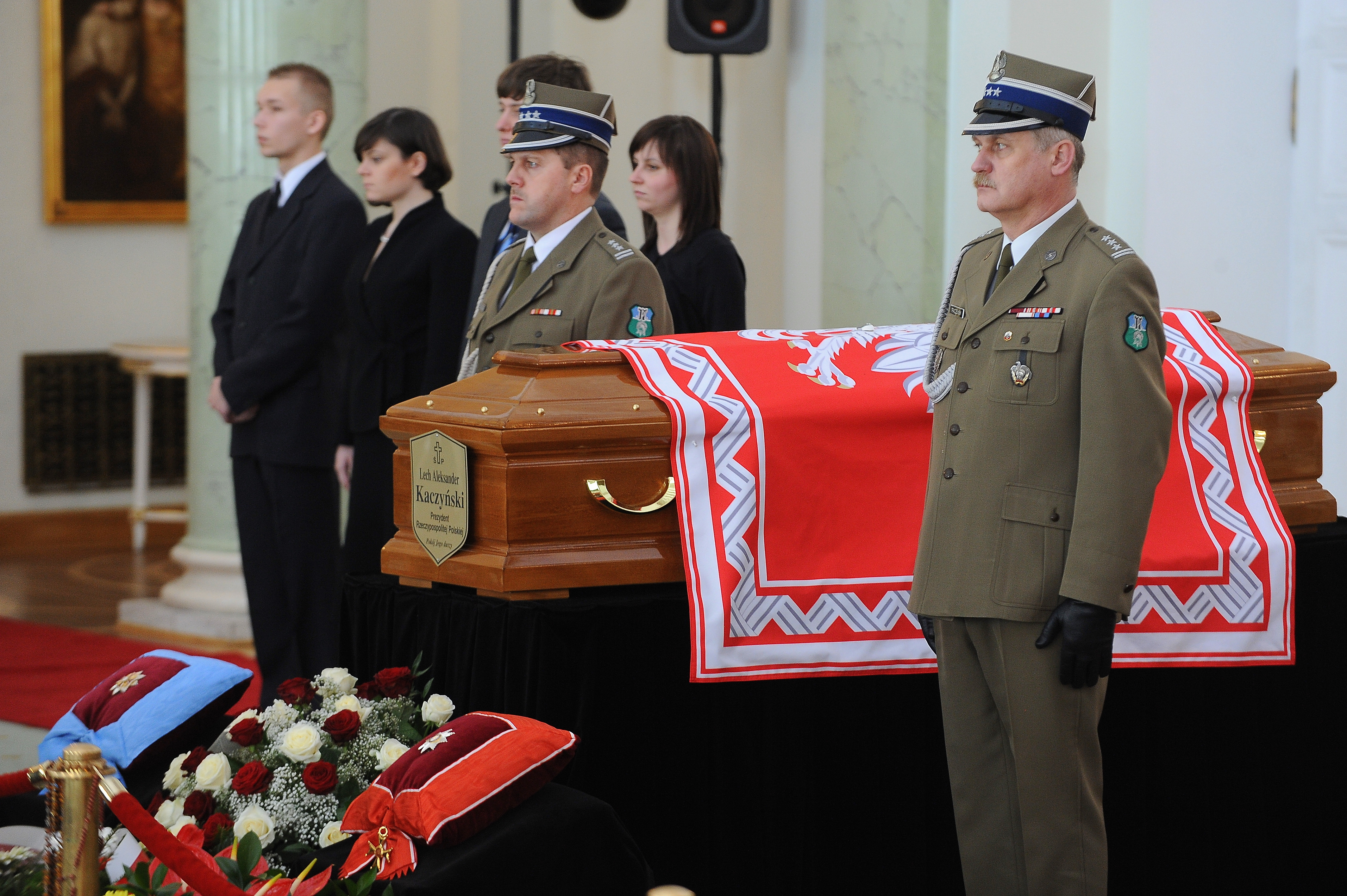 Coffin of President Lech Kaczyński in the Presidential Palace in Warsaw.